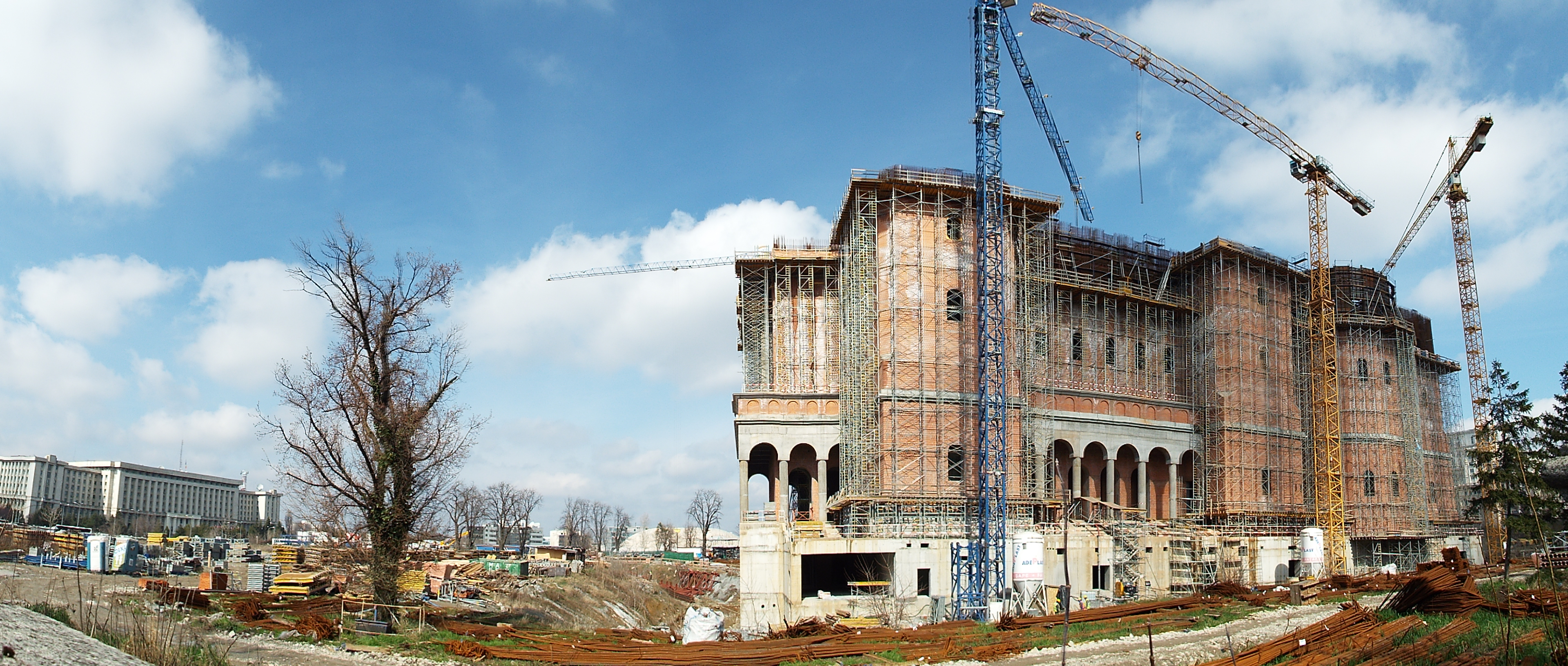 Romanian People's Salvation Cathedral, Bucharest (2016 March)